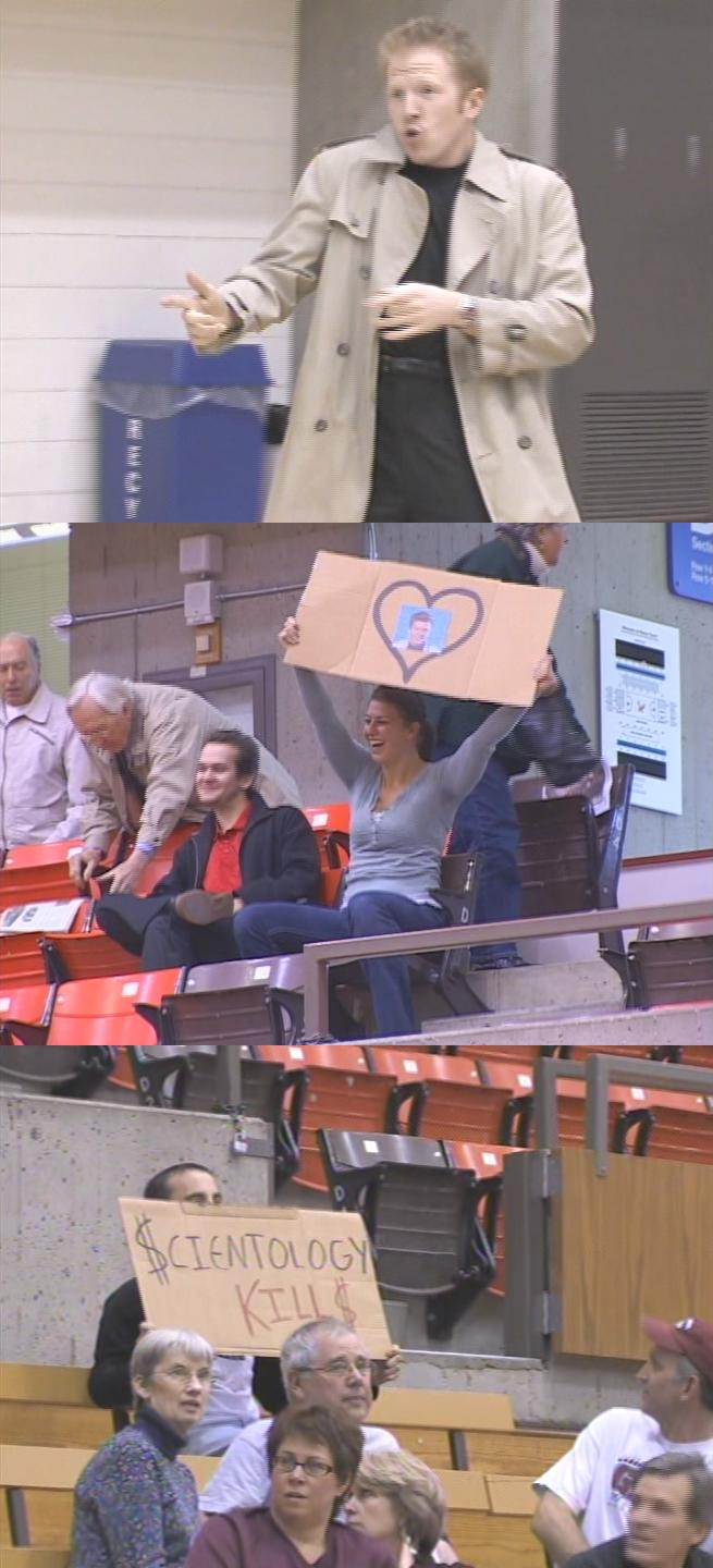 Image collage from rickrolling of a college women's basketball at Eastern Washington University on 3/15.